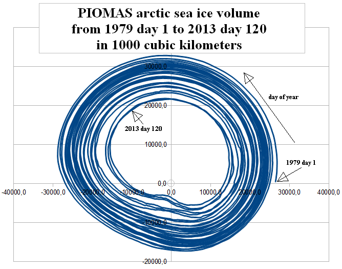 Pan-Arctic Ice Ocean Modeling and Assimilation System (PIOMAS) arctic sea ice volume (the used data originates from: )